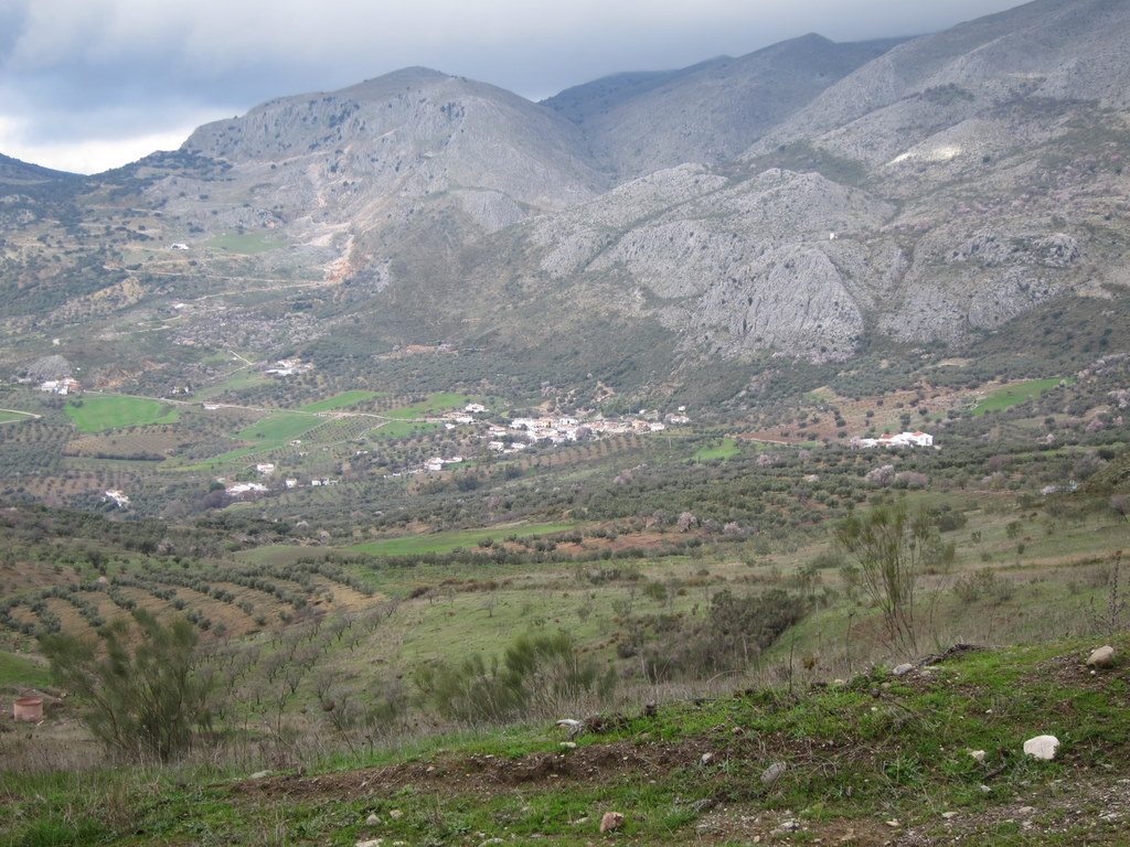 IMG_0559. Marchamona - Guaro